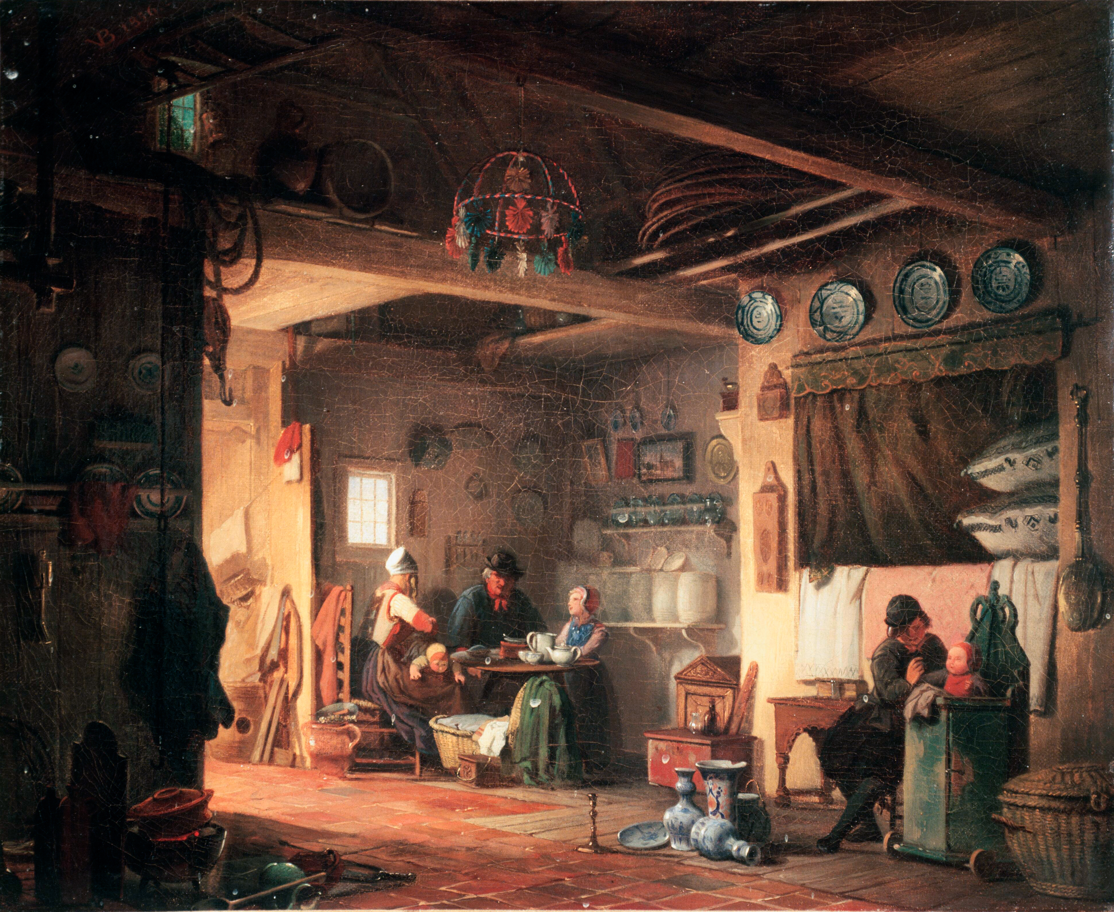 Marker rookhuis oil on canvas 34 x 42 cm signed t.l: VB 1856